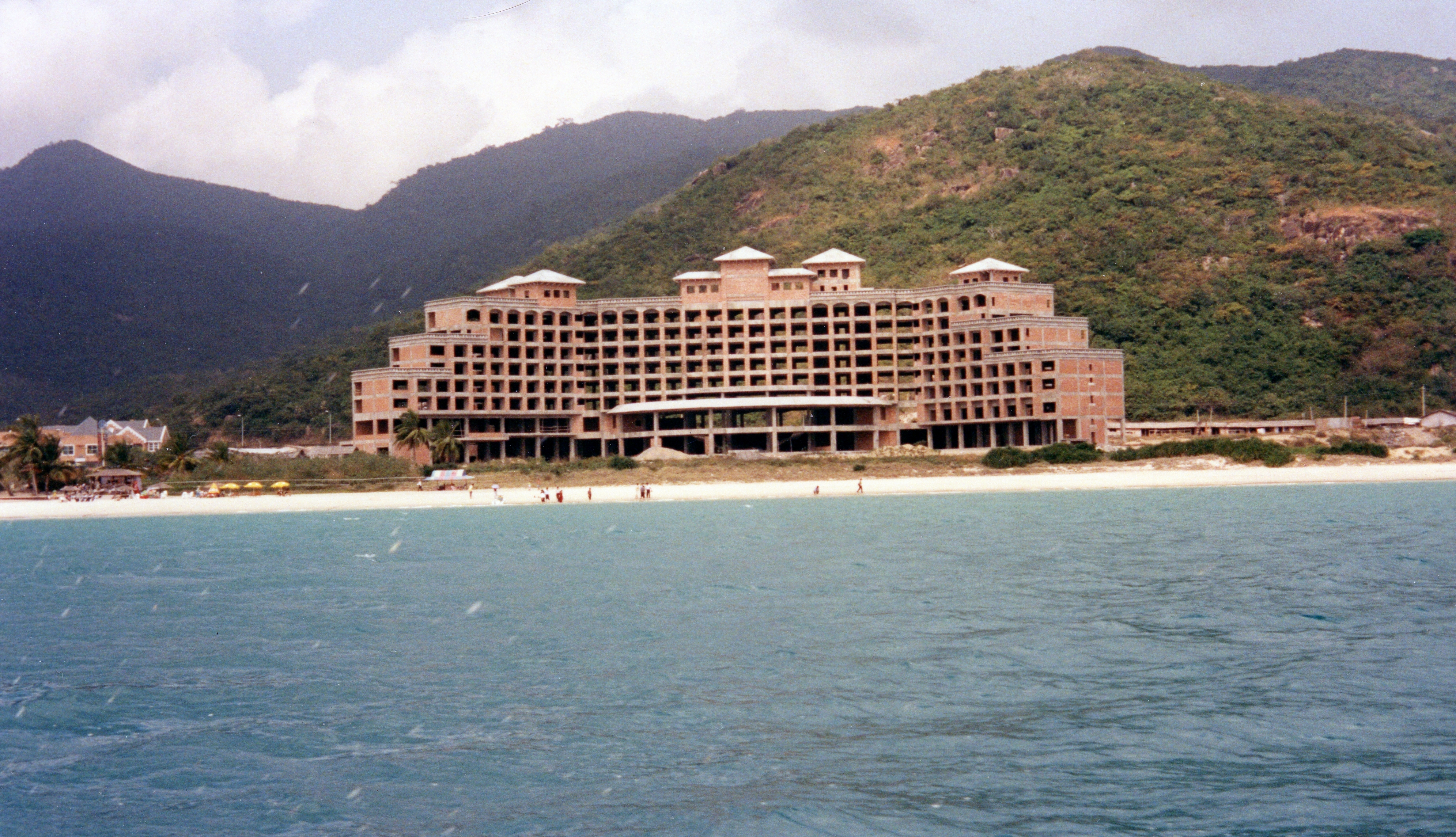 There are many abandoned buildings on Hainan Island — in Southeast China. This one was a hotel in Sanya, Hainan Province. Photo: 1999.